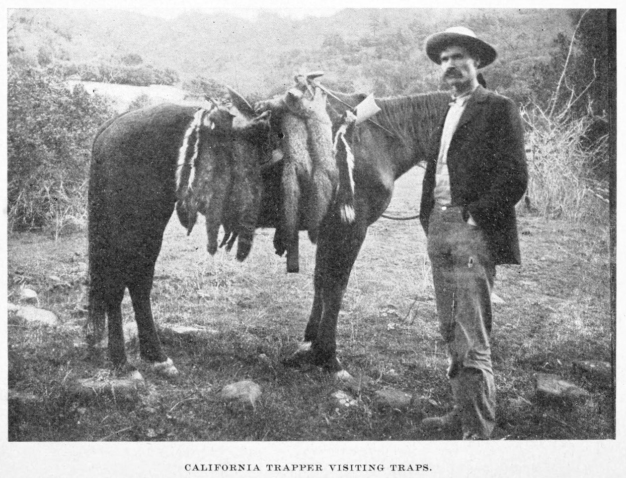 Photo of California trapper with horse, visiting his traps.